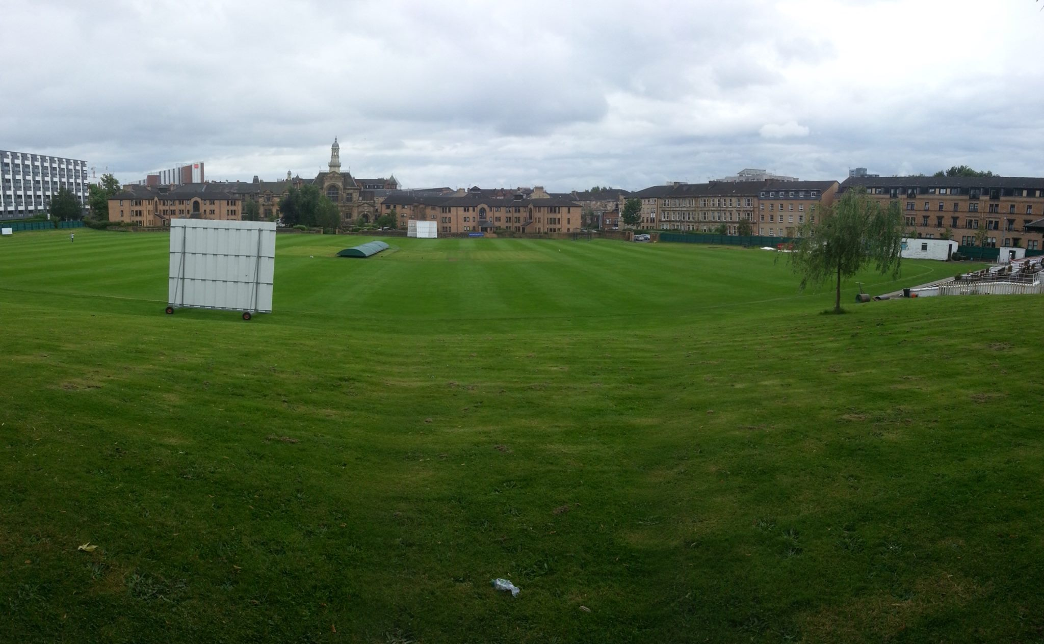 An other new photo of Partick cricket ground taken on friday